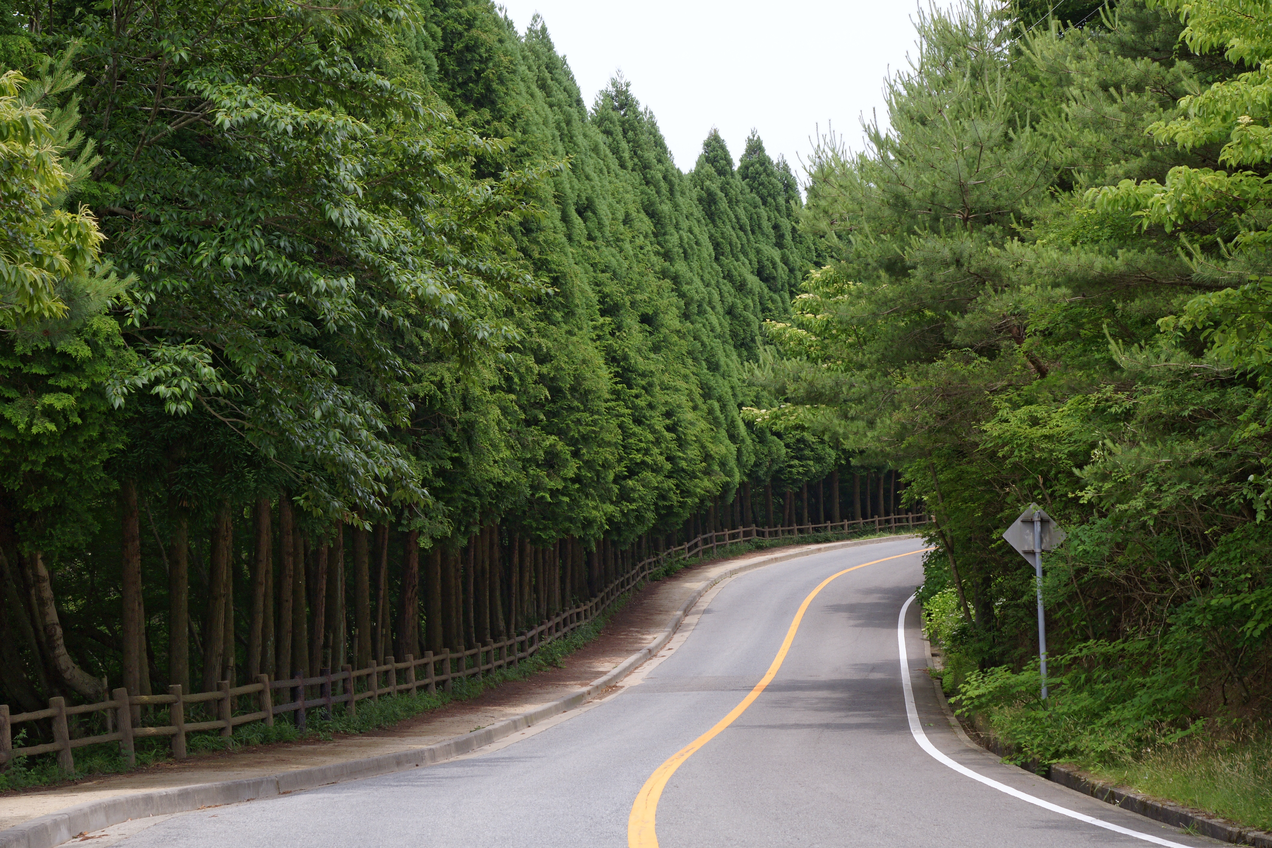 Okumaya Driveway, Kobe, Hyogo prefecture, Japan